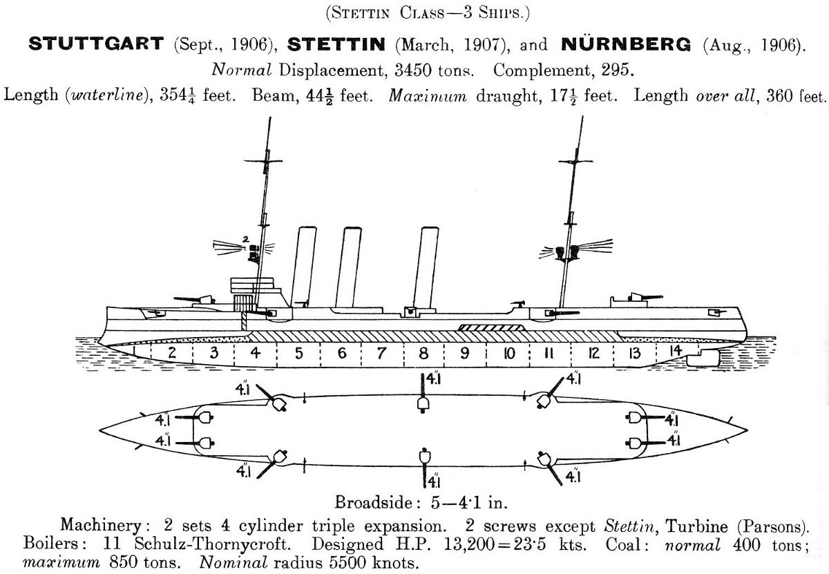 Left elevation and plan diagrams depicting German Königsberg class cruiser (1905).